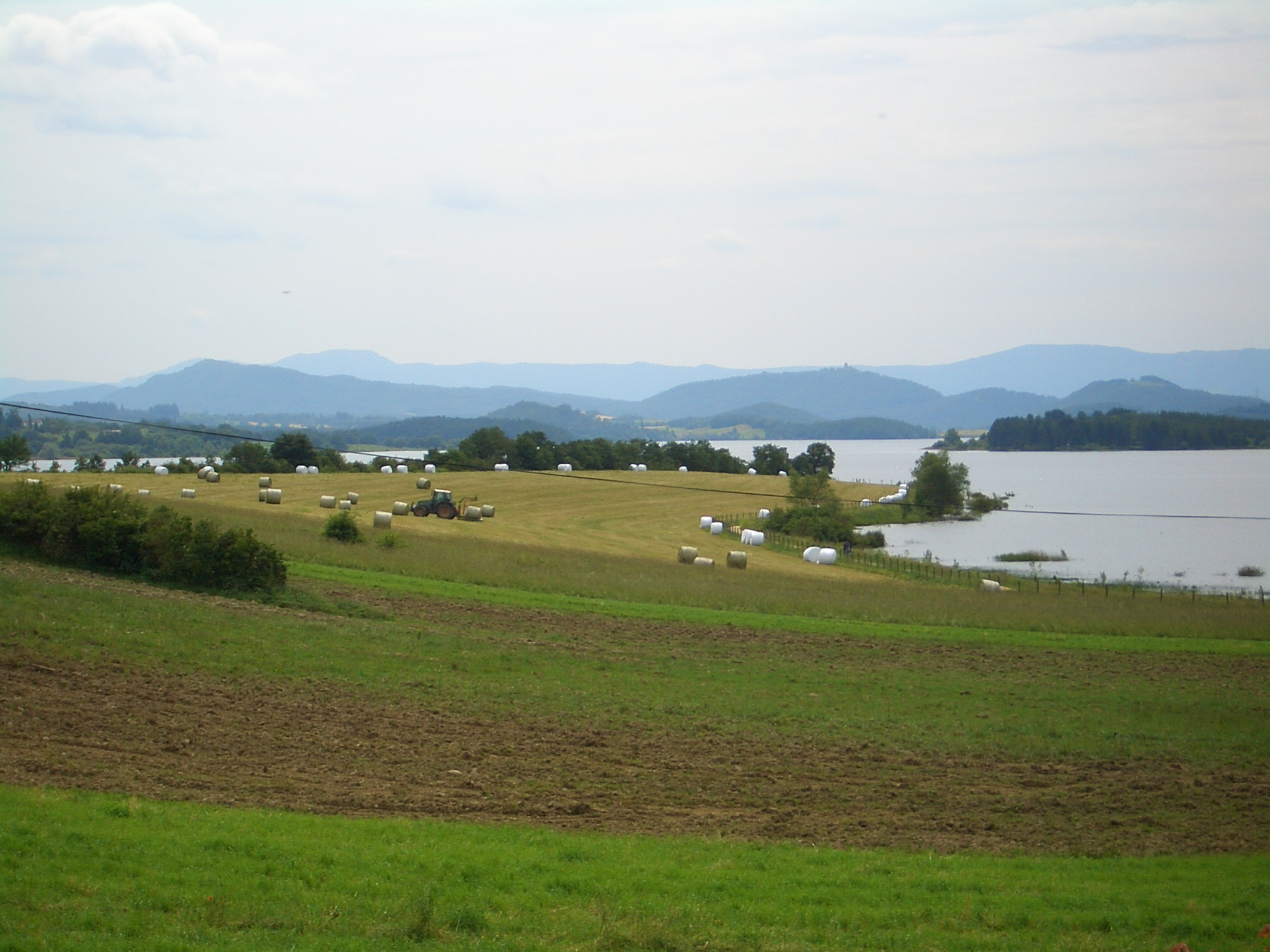 Ulibarri-Gamboa Reservoir, a few km north of Vitoria-Gasteiz